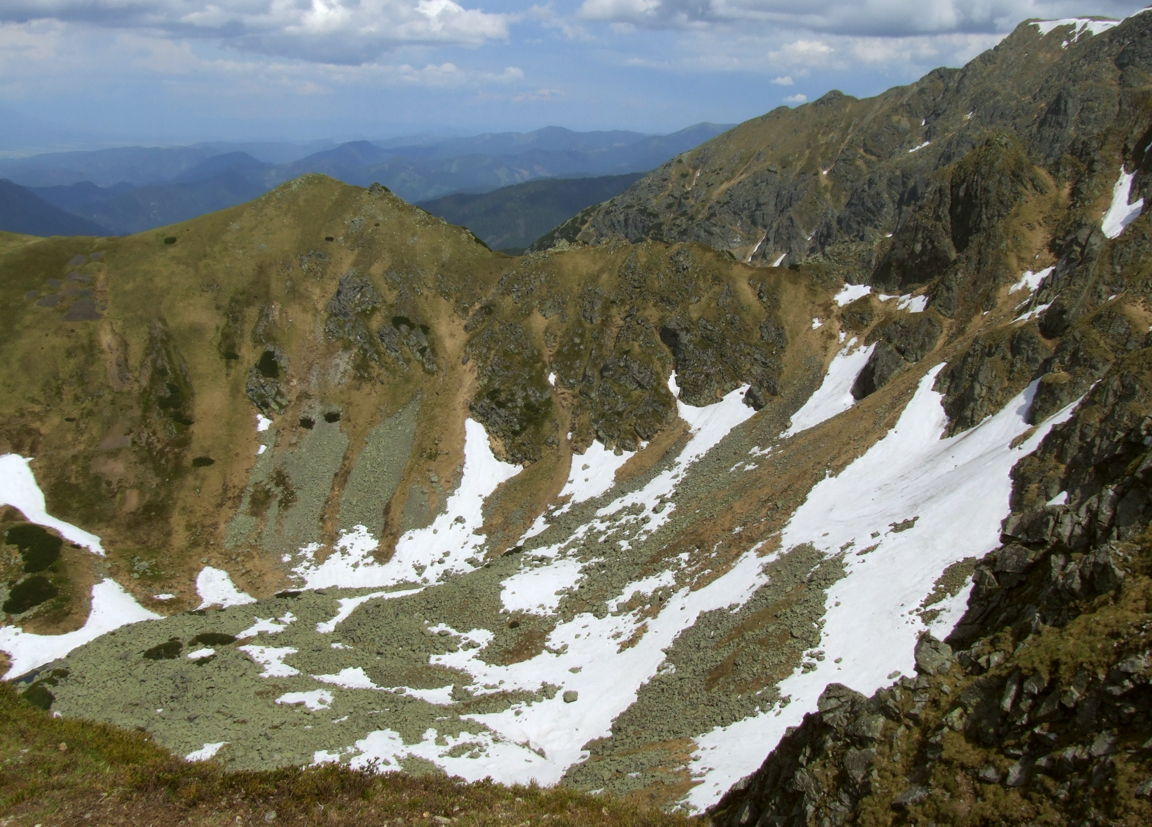 Nízke Tatry (Low Tatras) - Ďumbier cirque